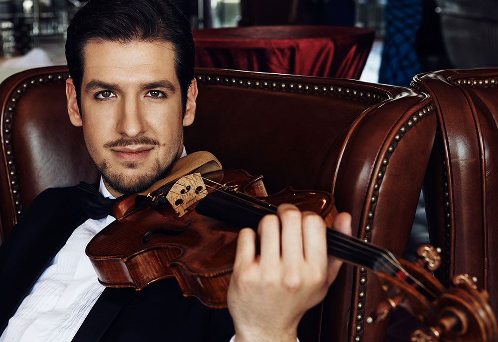 Lech Antonio Uszynski - Violist